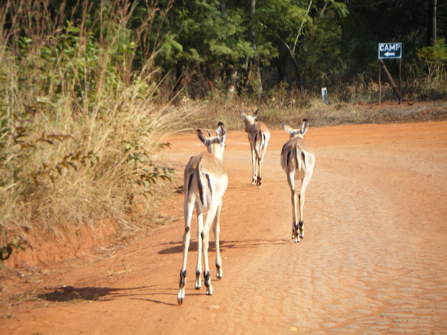 Animals have the right of way